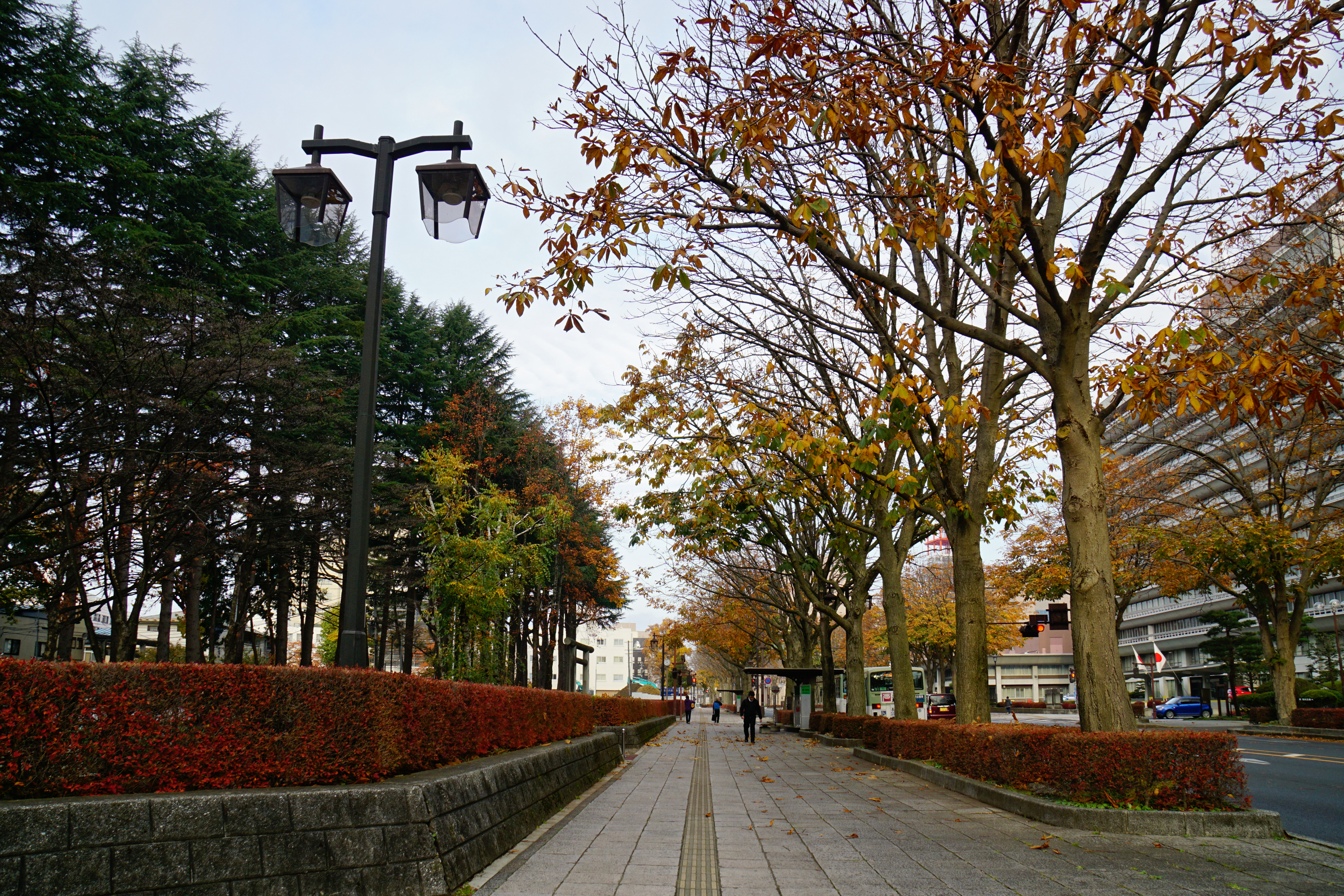 Chuo-dori in Morioka, Iwate prefecture, Japan